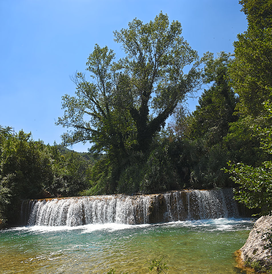 Castellano river near Ascoli Piceno, just above Cartiera Papale.